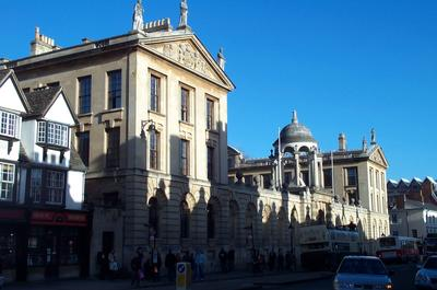 The Queen's College, Oxford, England